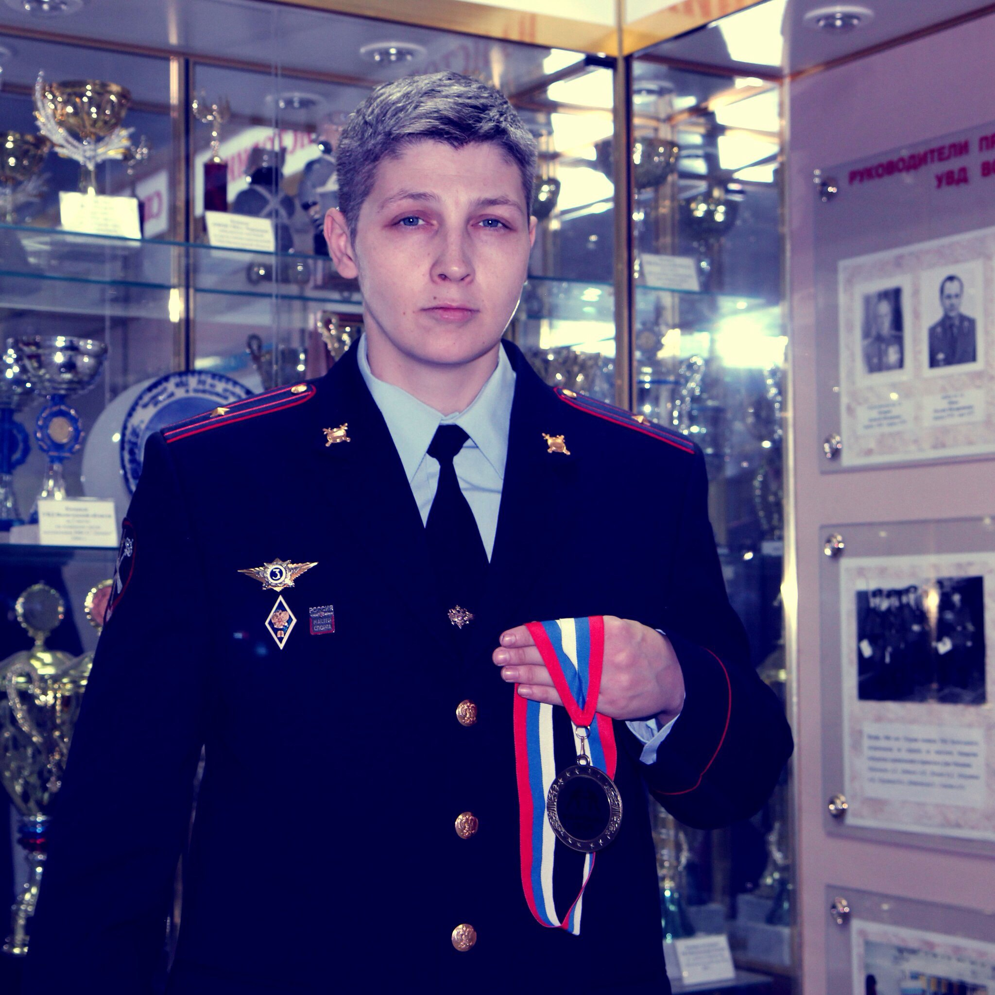 майор Е.А.Зенкевич